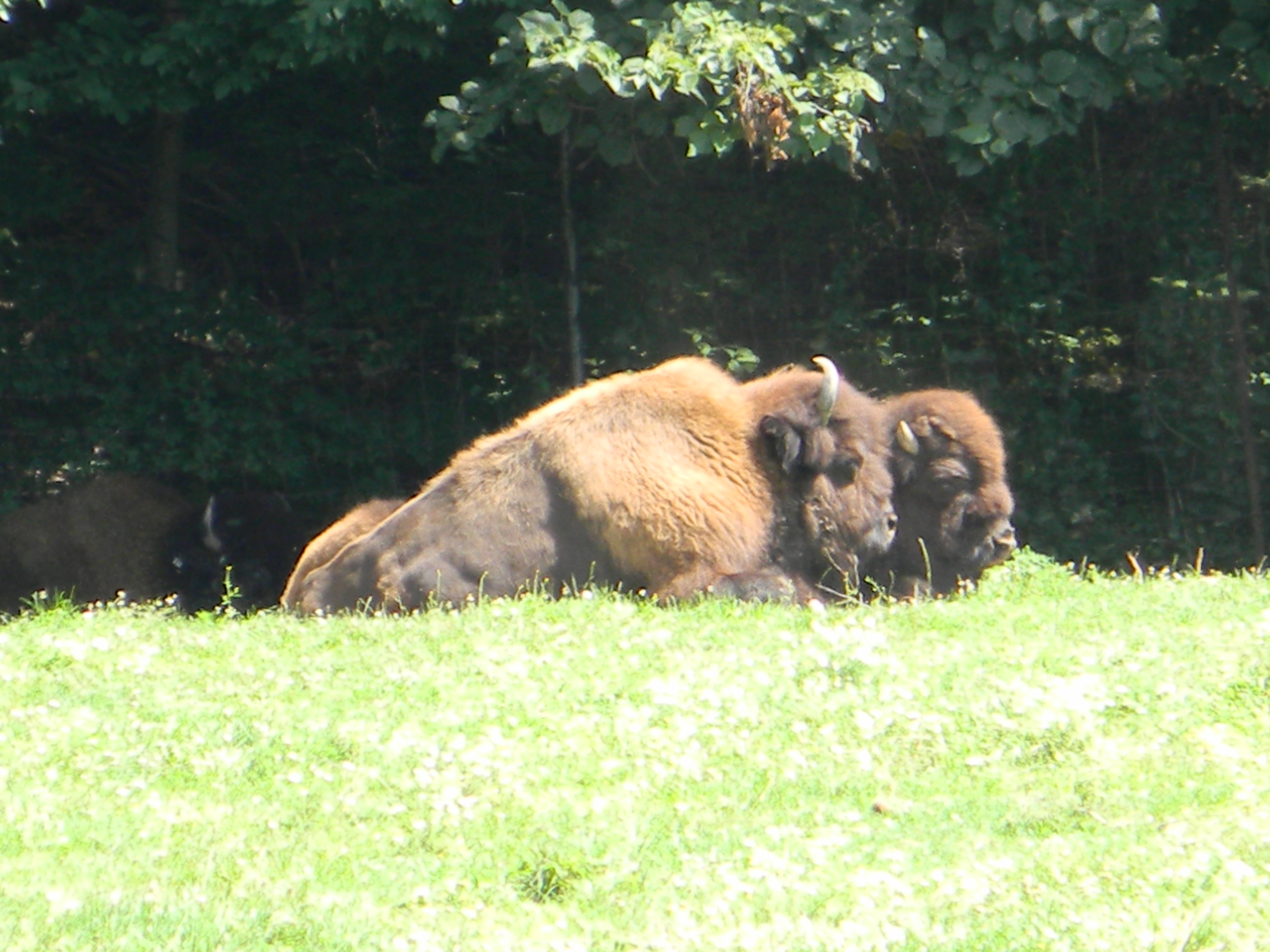 Canadian Wood bison Bison bison athabascae